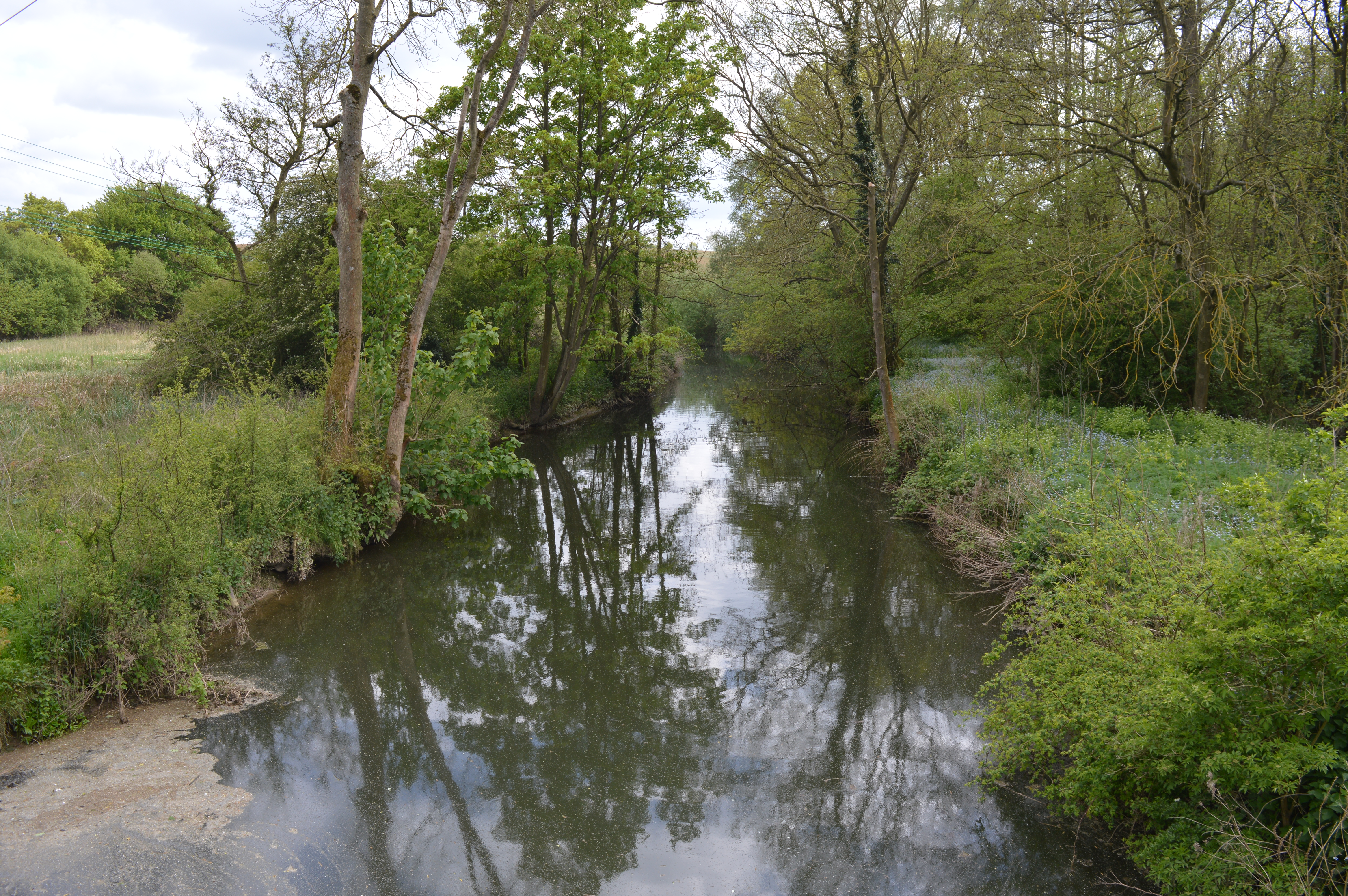 Glemsford Pits is a biological Site of Special Scientific Interest south of Glemsford on the border between Suffolk and Essex.